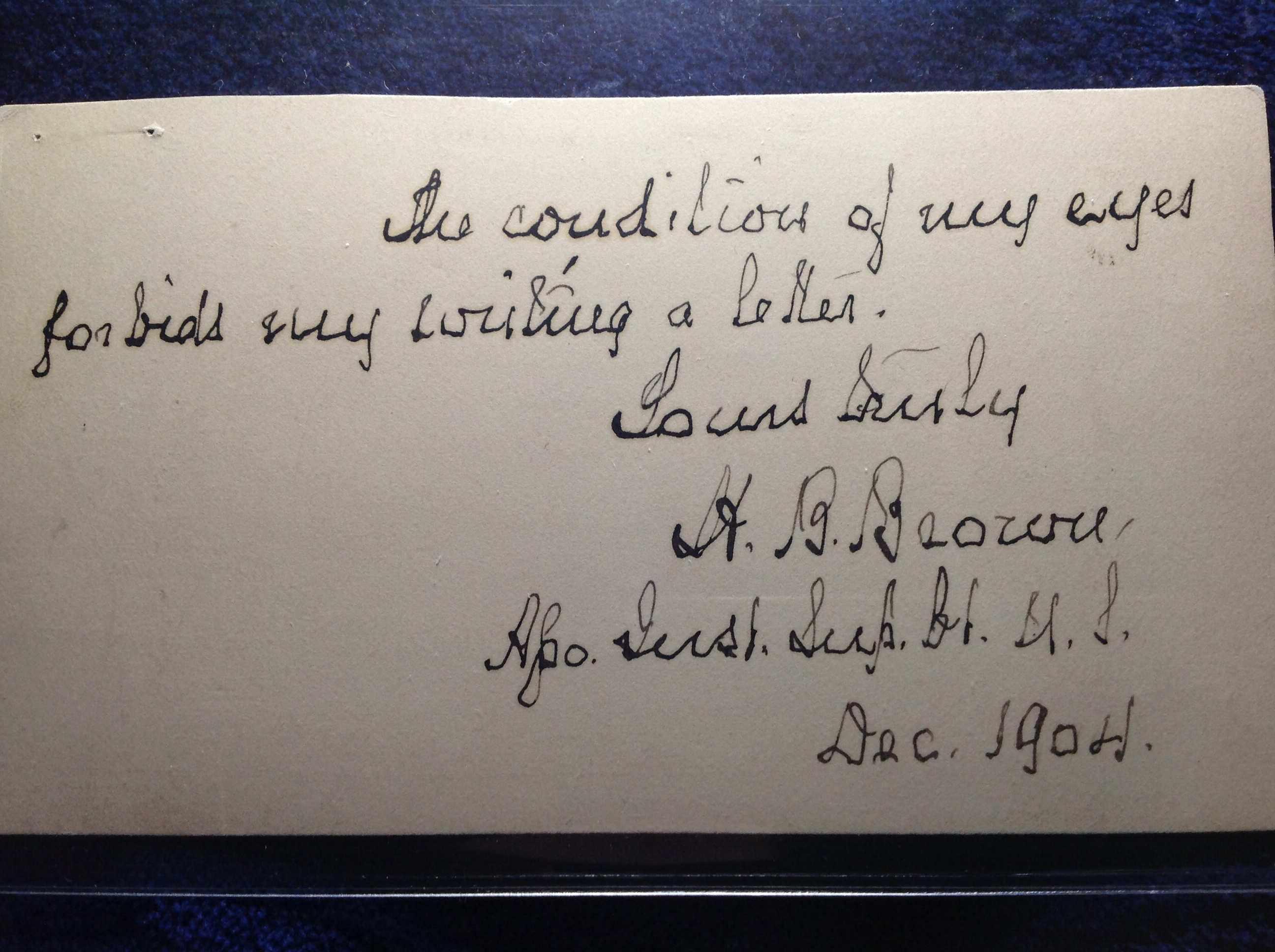 Henry Billings Brown, handwritten card referring to his failing eyesight (1904).